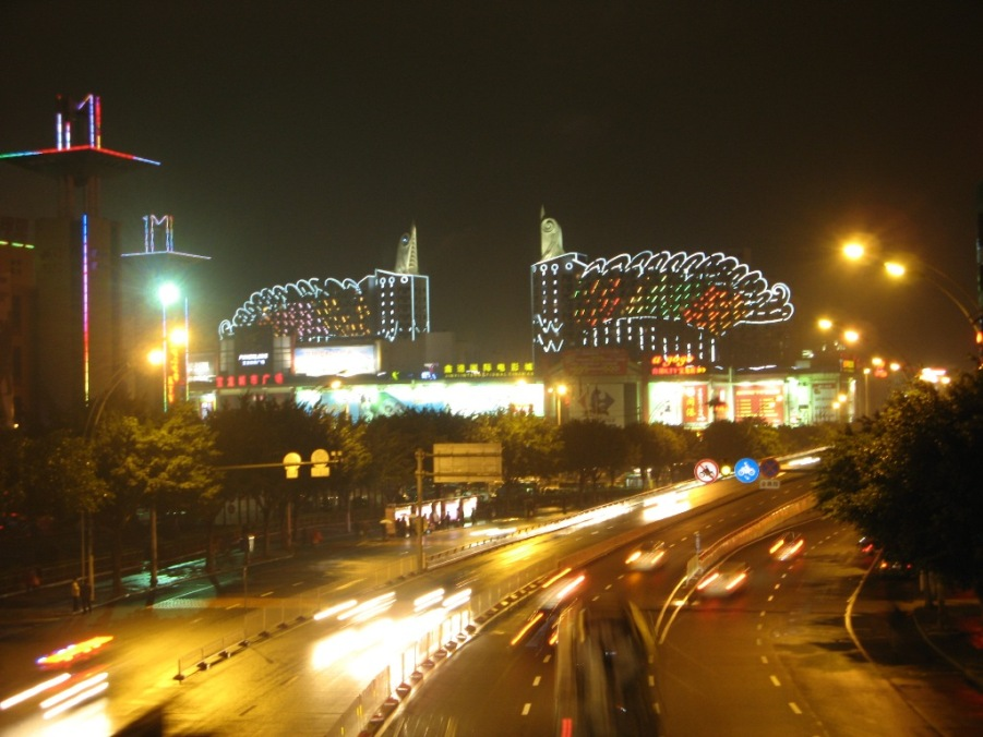 Fuzhou Powerlong Square